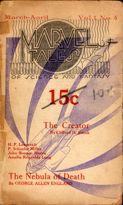 Cover of the pulp magazine Marvel Tales of Science and Fantasy (March-April 1935, vol. 1, no. 4) featuring "The Nebula of Death" by George Allen England and "The Creator" by Clifford D. Simak.